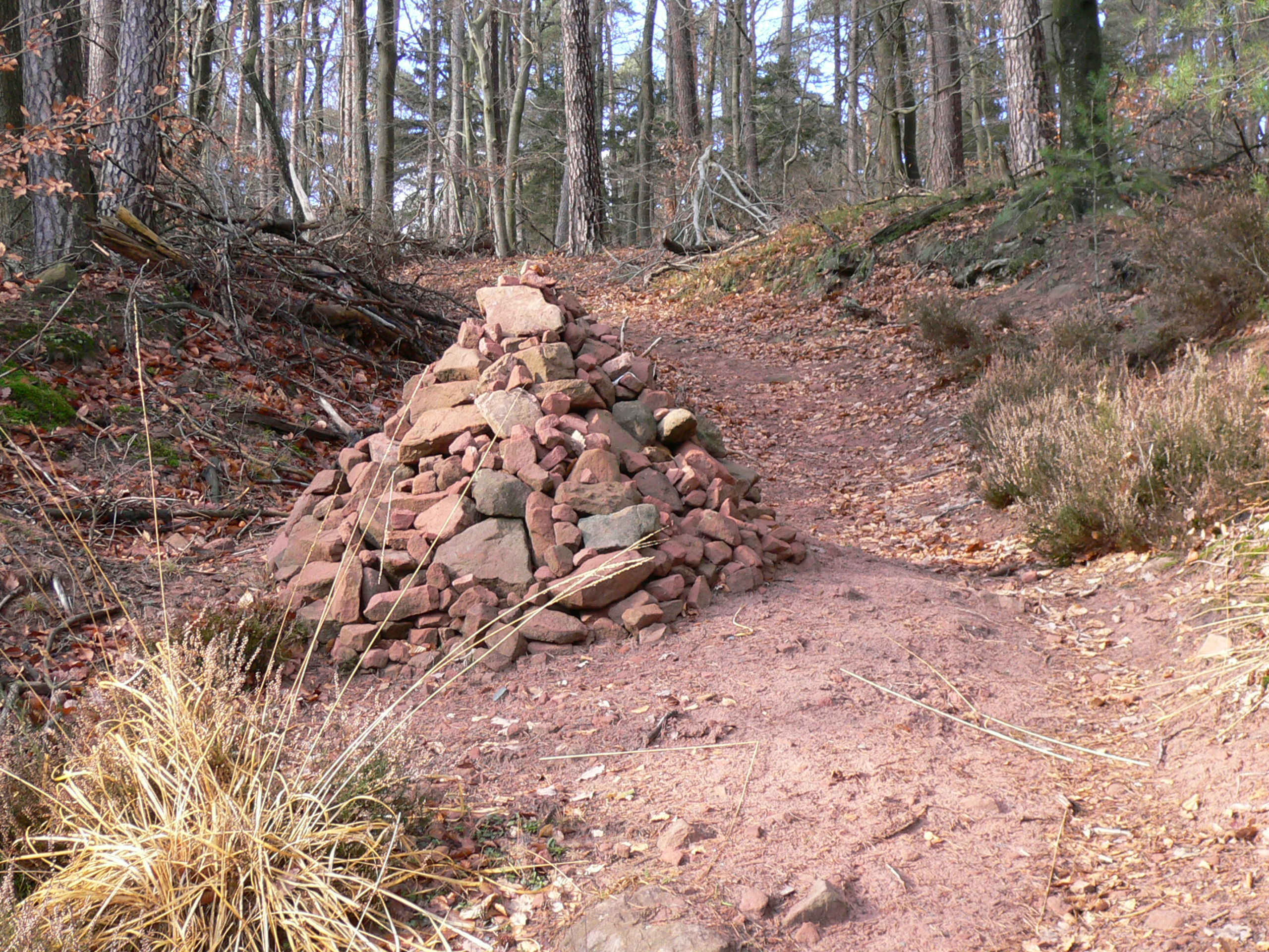 cairn in Germany